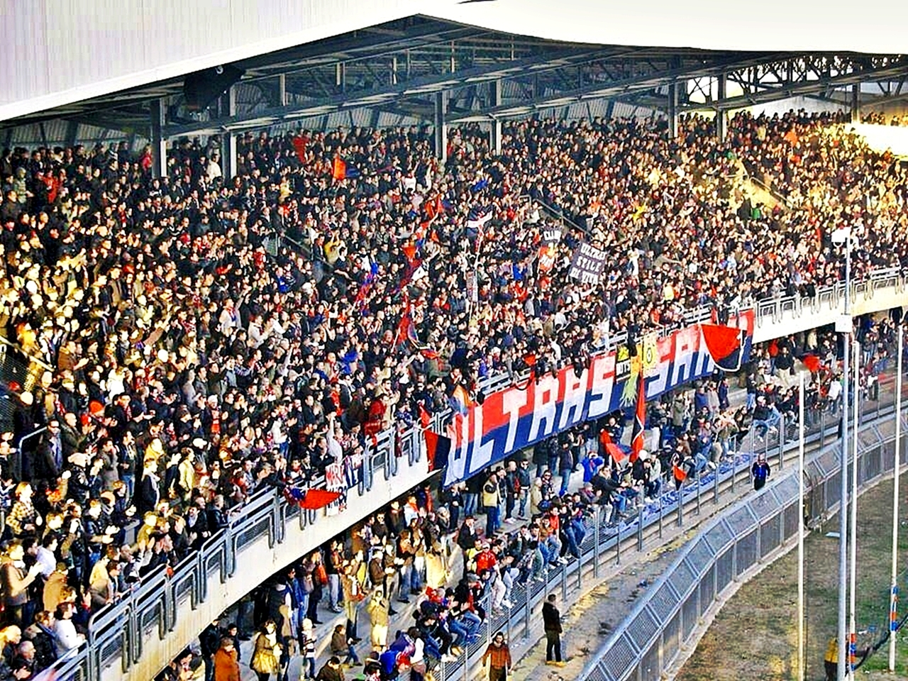 San Benedetto del Tronto, Riviera delle Palme stadium "Curva Nord" Massimo Cioffi" during Sambenedettese - Ancona race valid for the 2nd day of the championship series d group f 2011-12